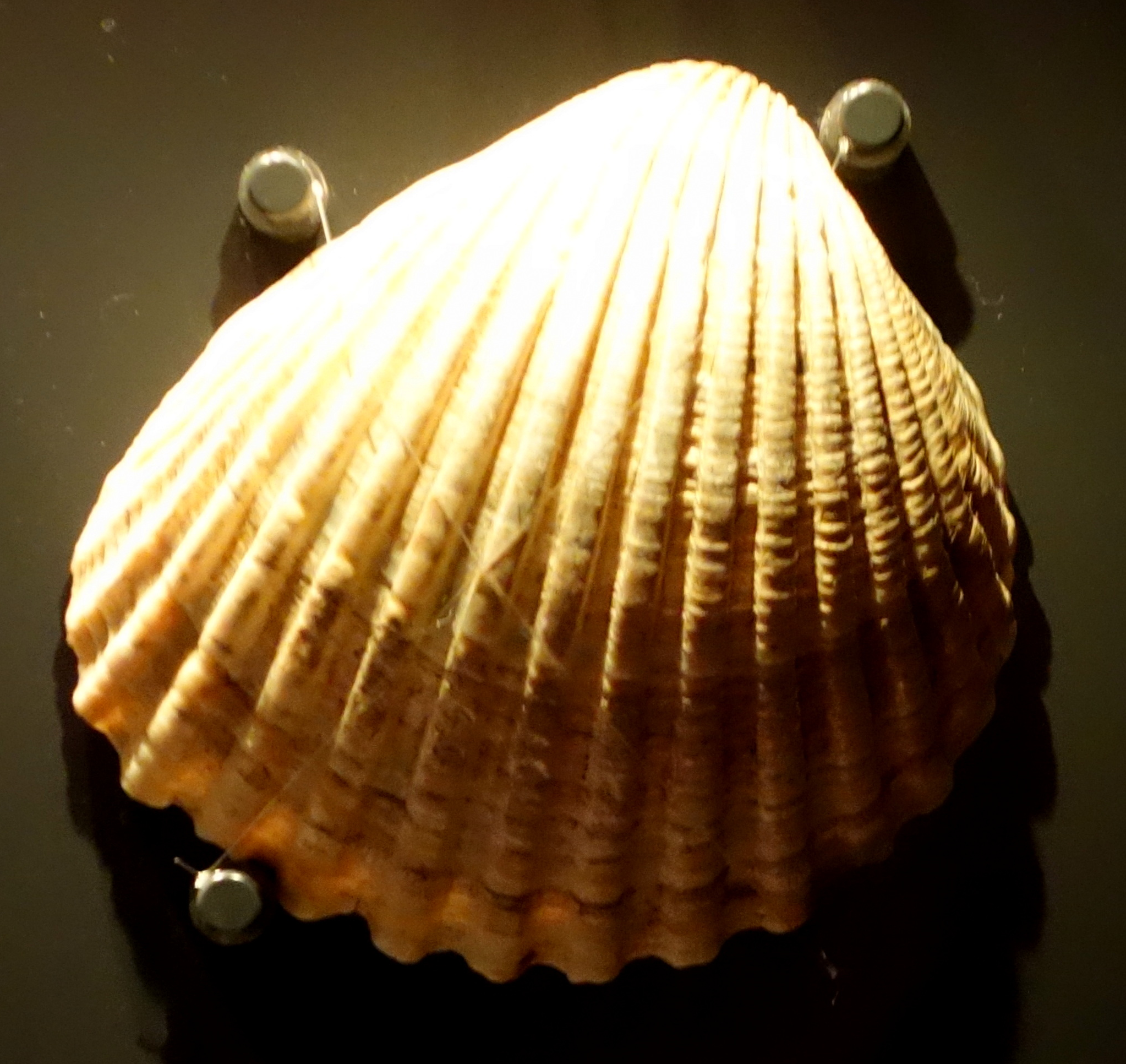 Cropped image of taxon in file name